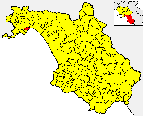 Locator map of the municipality of Vietri sul Mare (red) within the Province of Salerno